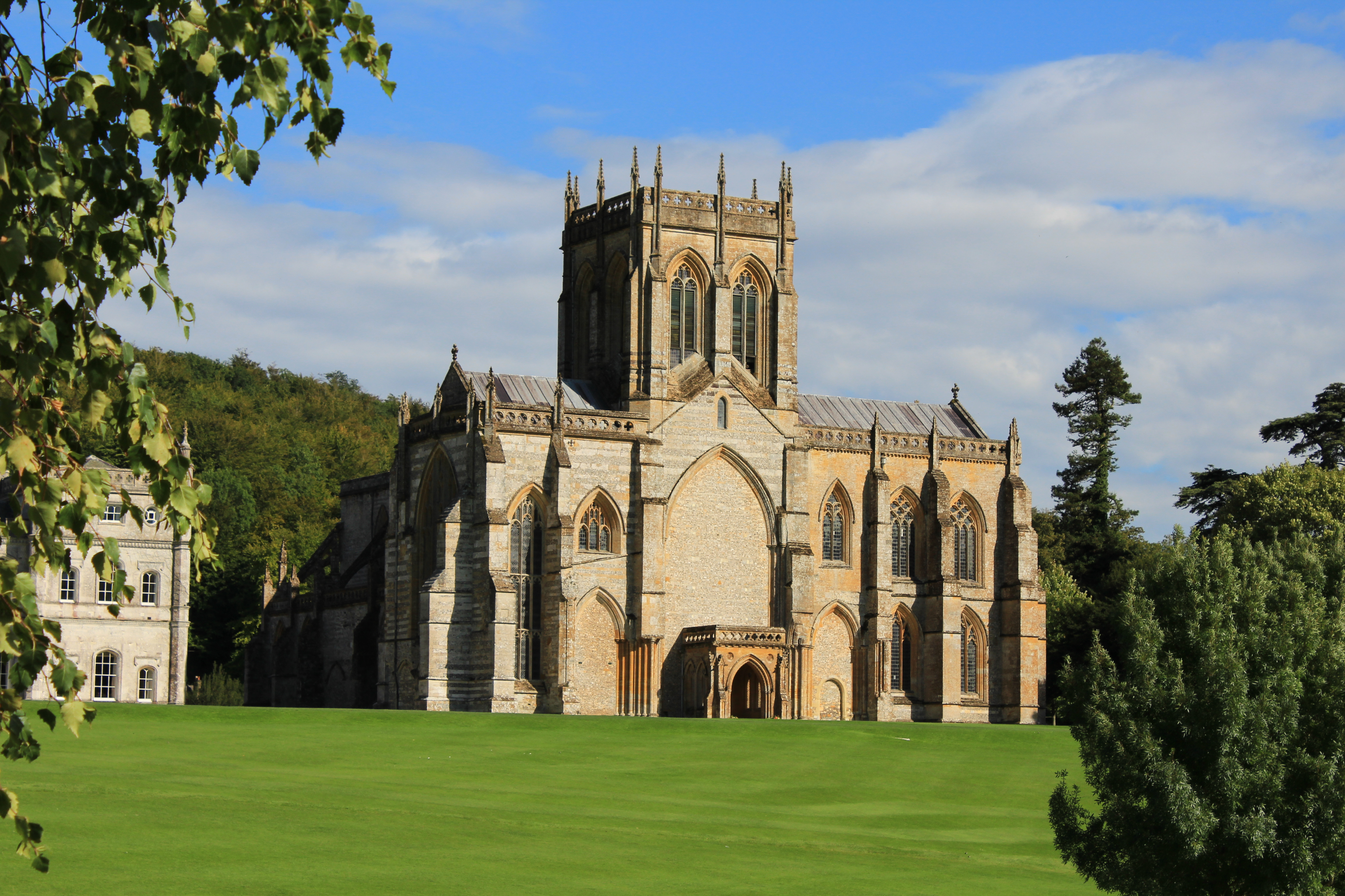 Milton Abbey Church, Dorset, England, on 1 September 2015